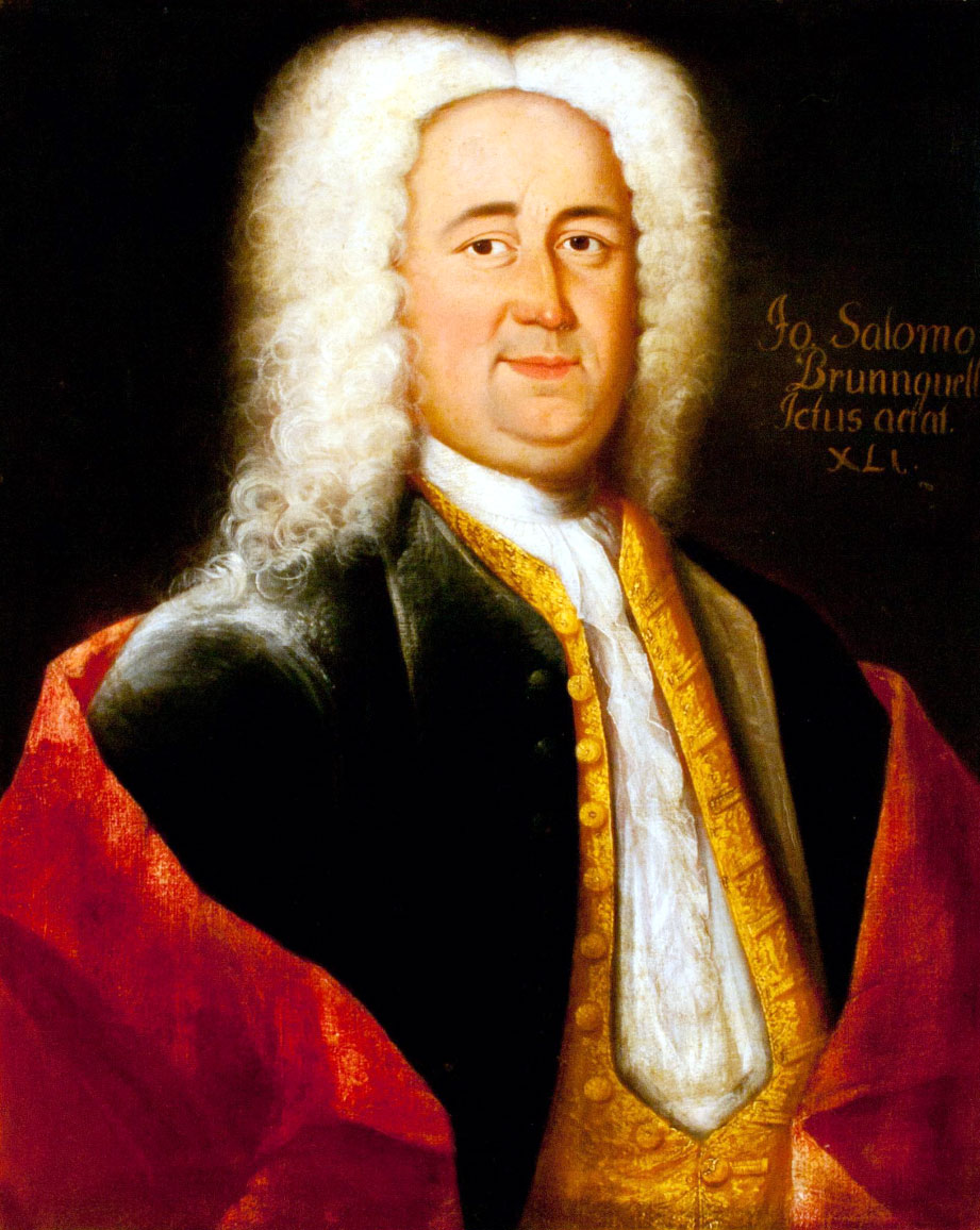 Johannes Salomo Brunnquell (1693-1735) Jurist from Germany